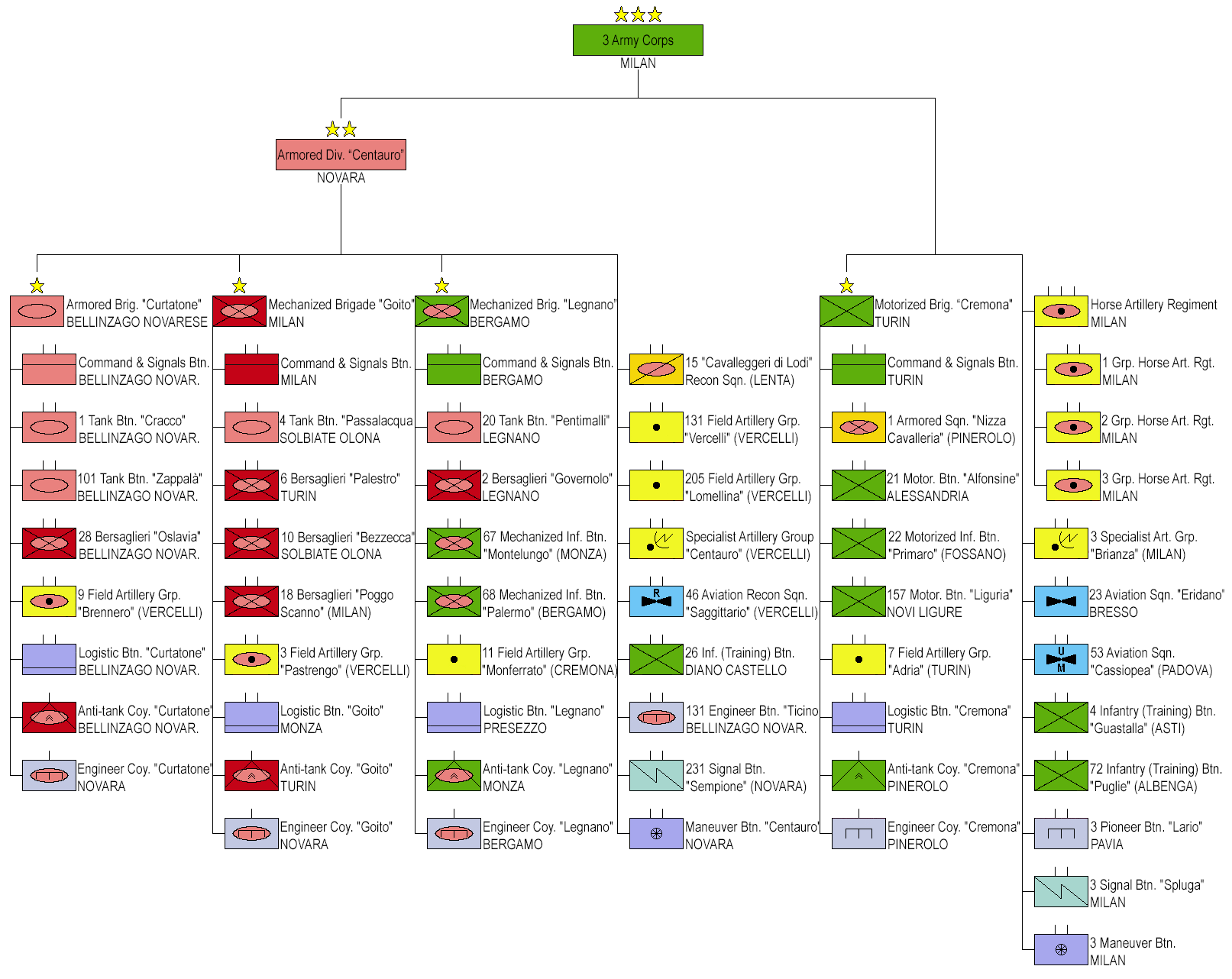 Italian Army: Structure of the 3rd Army Corps structure in 1986 before the divisional level was abolished and the Trieste and Brescia brigades joined the corps